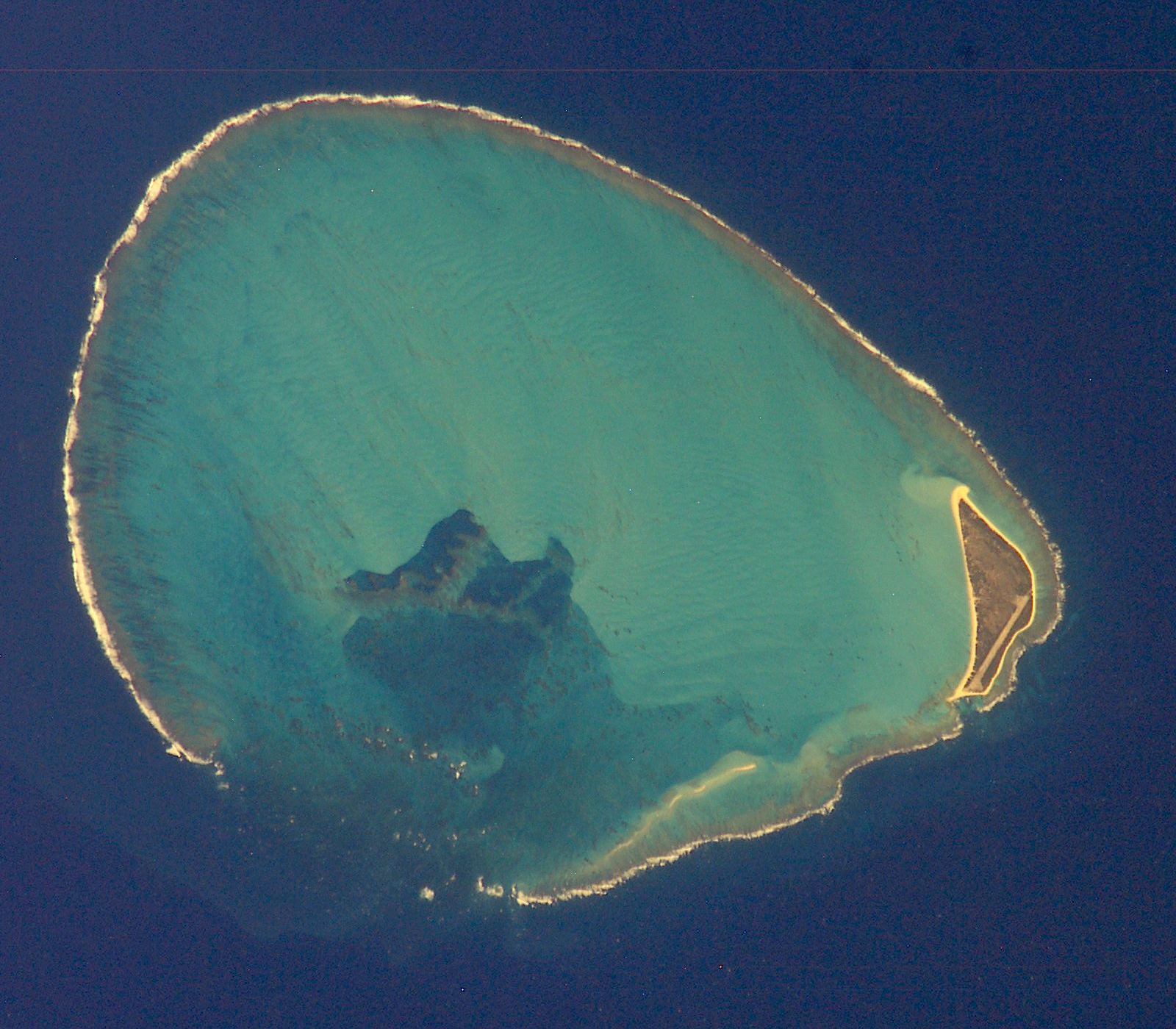 Satellite picture of Kure Atoll in the Northwestern Hawaiian Islands from ISS Expedition 6